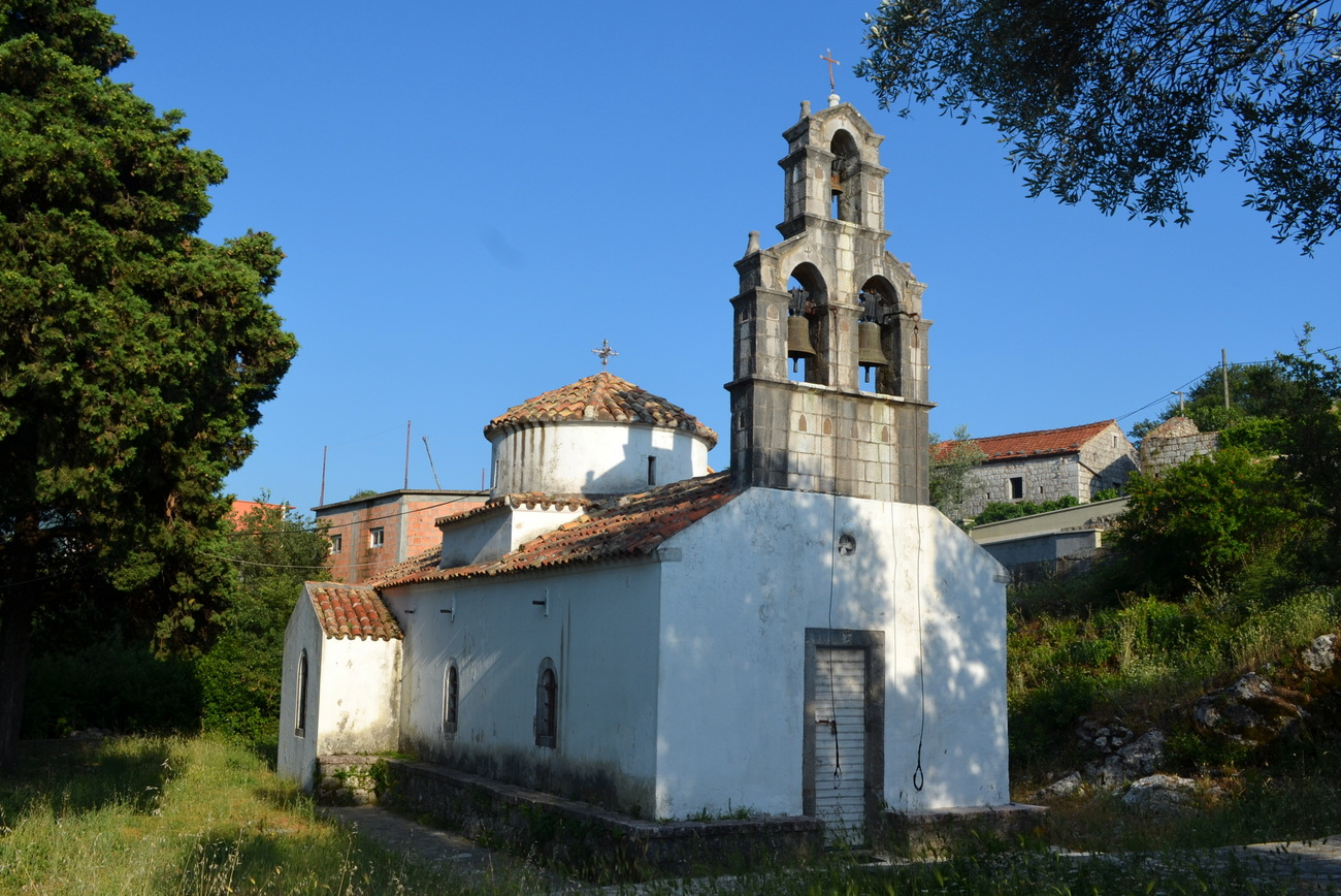 Church of Sveta Petka at Vranovici, Montenegro